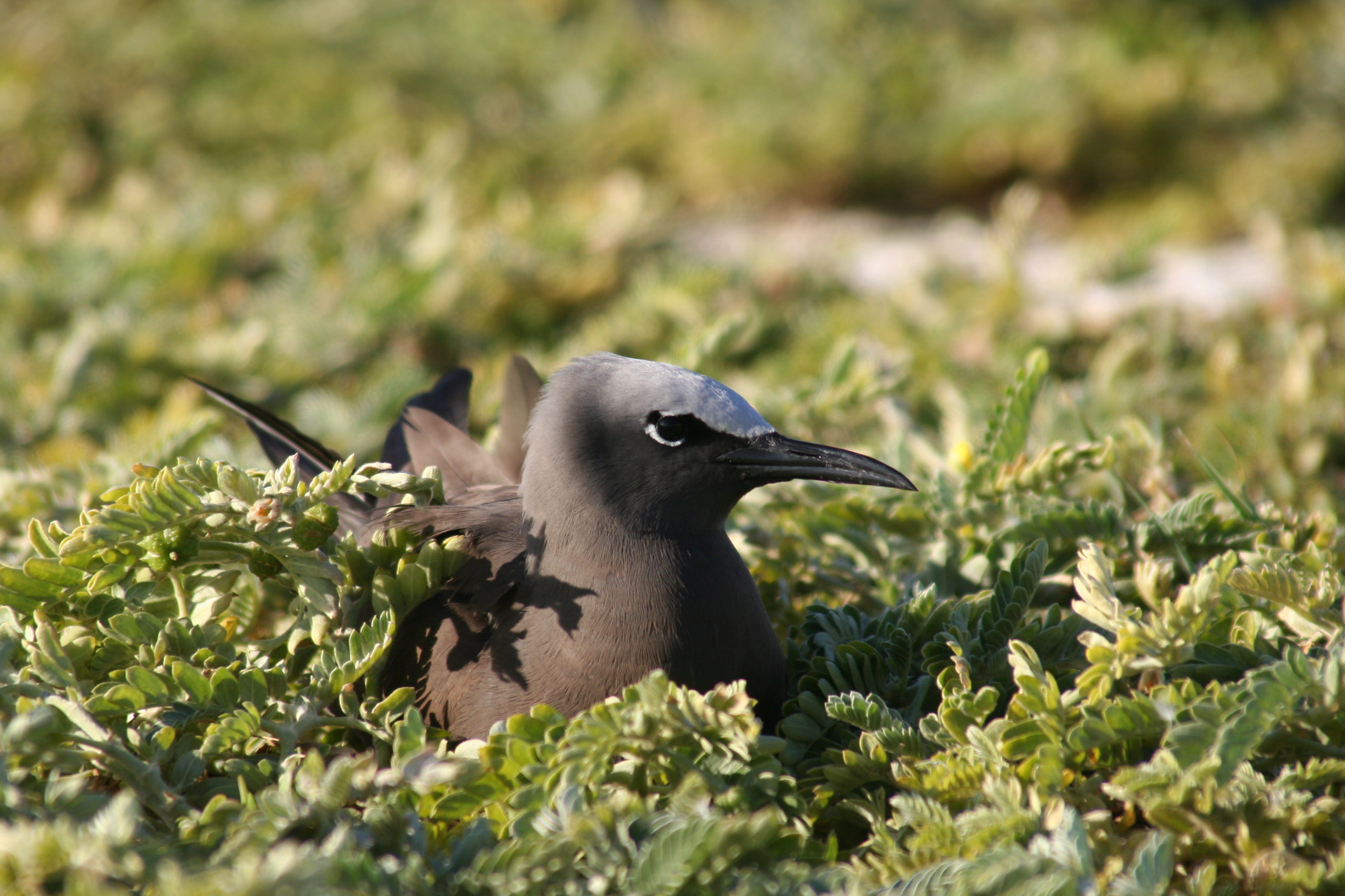 Brown Noddy Anous stolidus nesting, taken on Tern Island, French Frigate Shoals